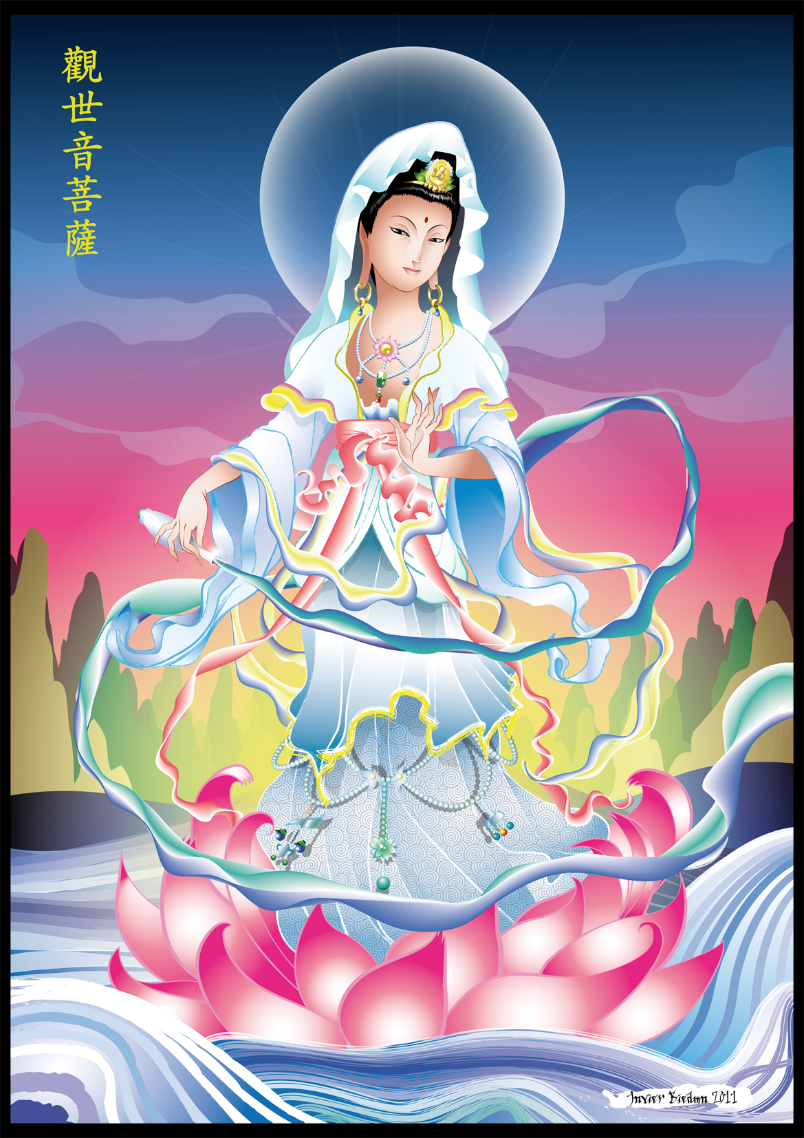 Guanyin is the bodhisattva associated with compassion.